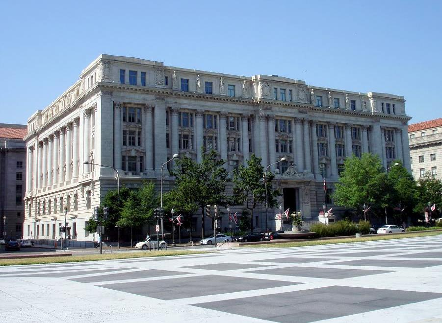 The John A. Wilson Building